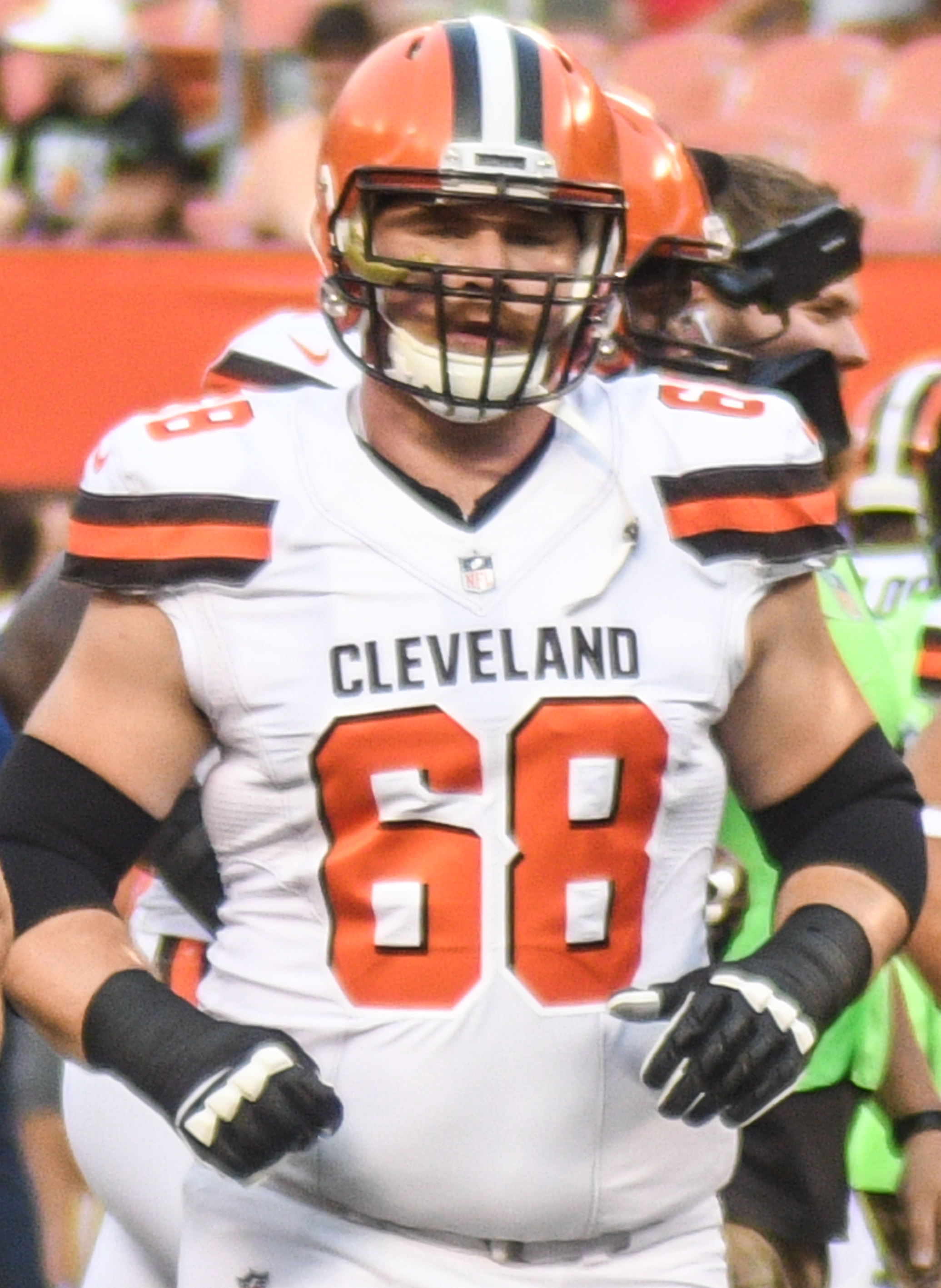 Cleveland Browns vs. New York Giants